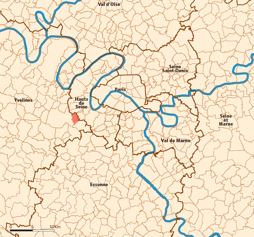 Created map myself.